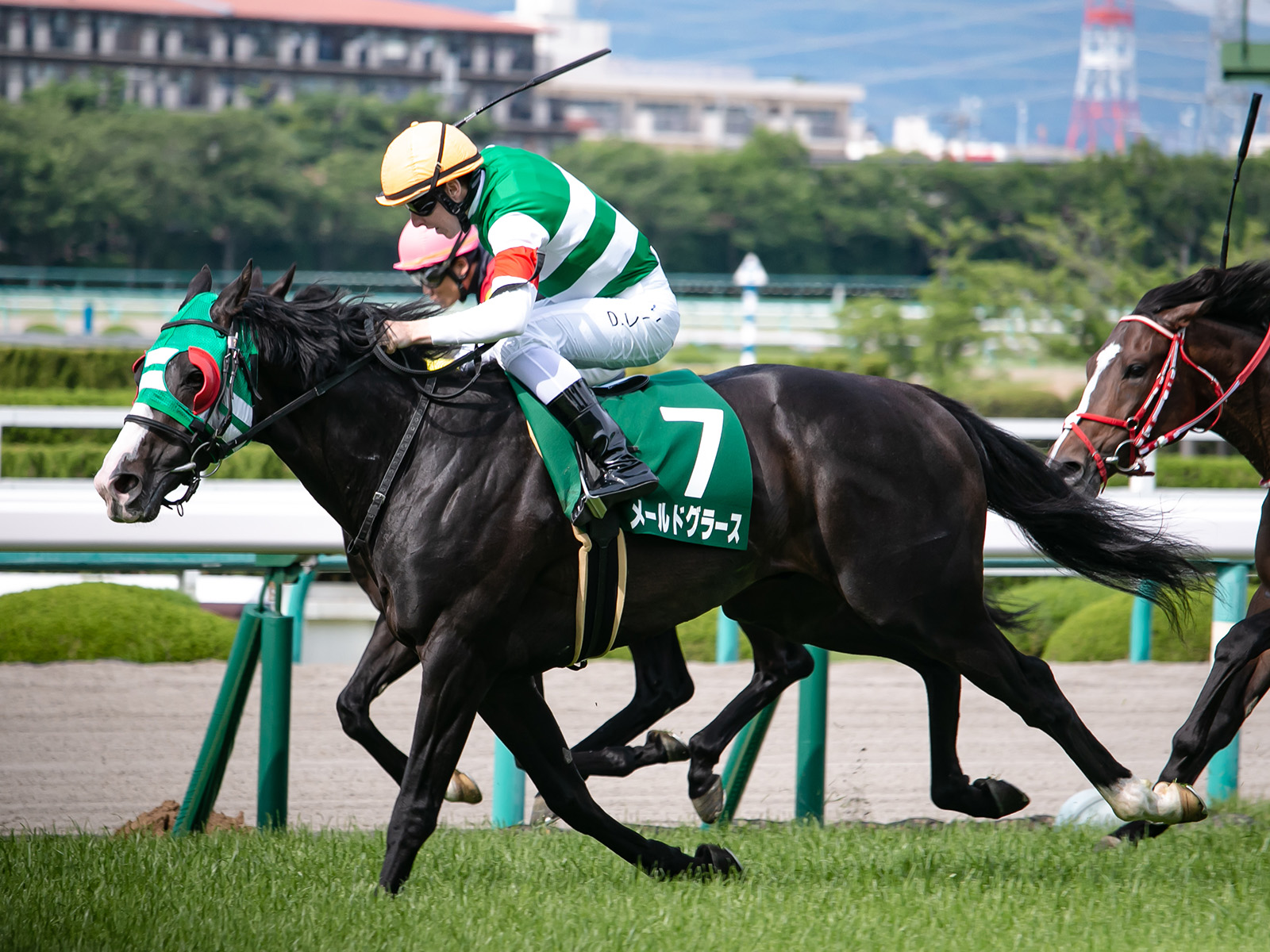 Mer de Glace(JPN), Racehorse of Japan.